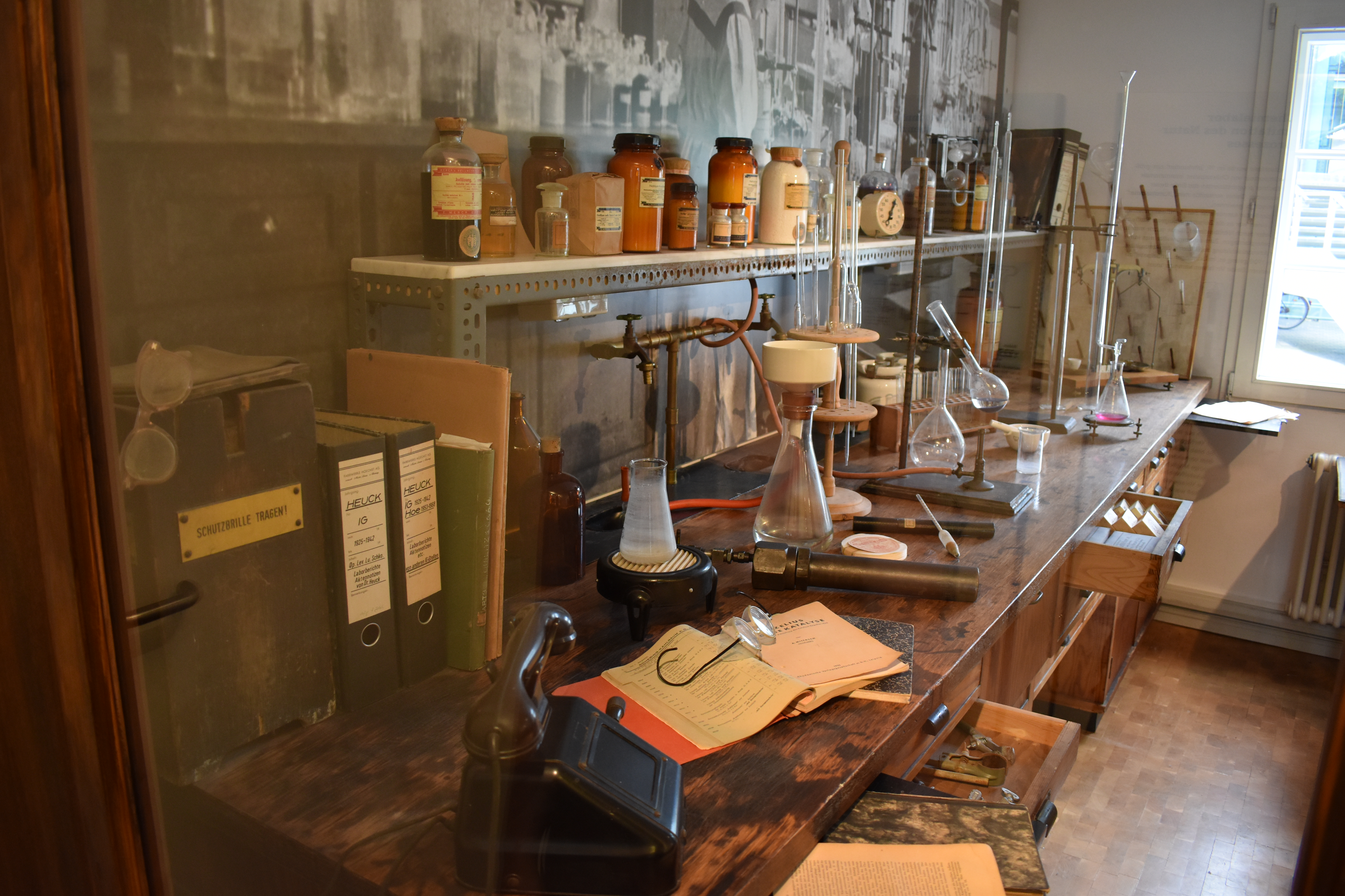 Part of the exhibition at the Carl Bosch Museum in Heidelberg, Germany (2017).